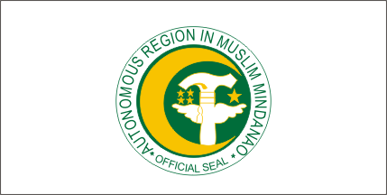 provisional flag of the ARMM